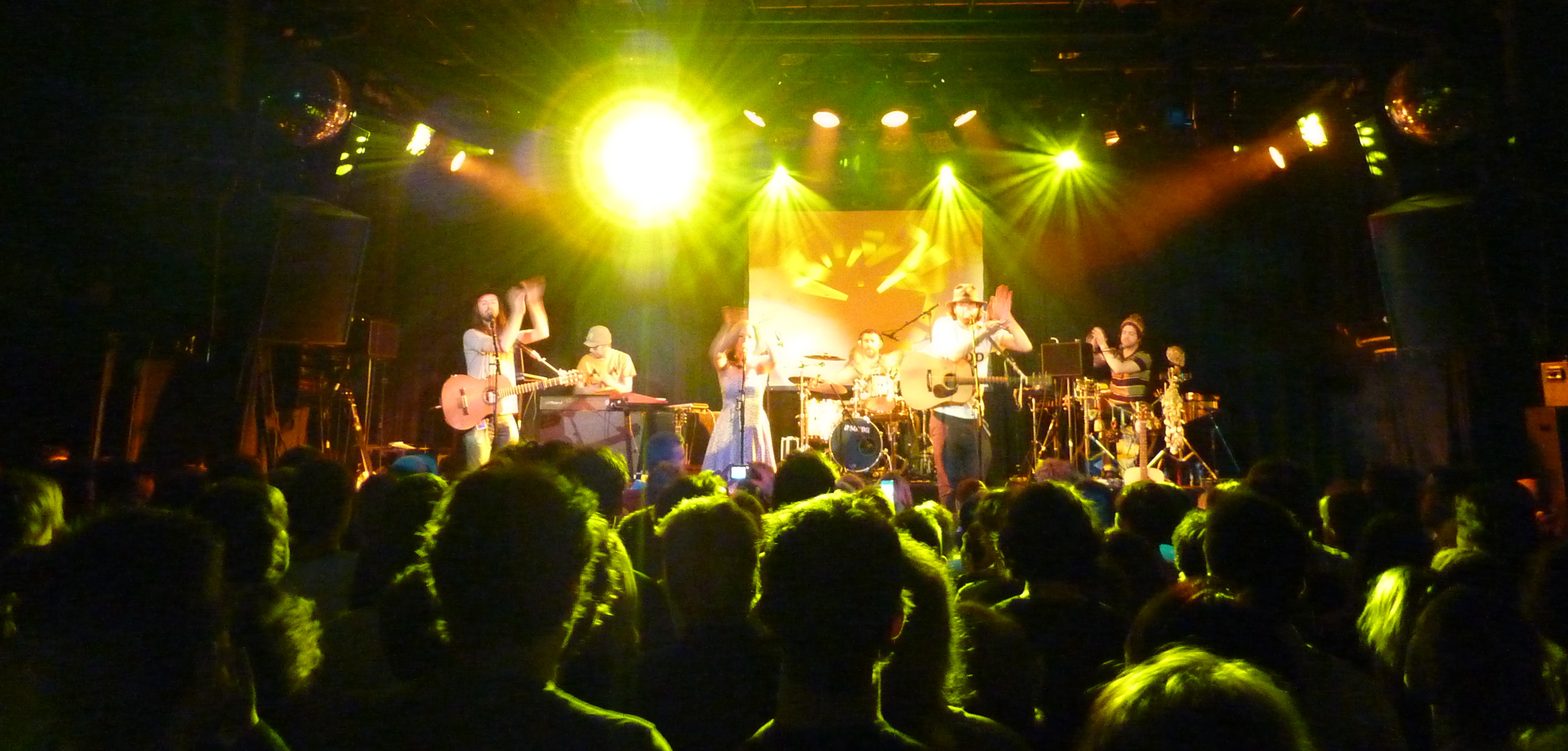 Photo of the band Tunng playing on stage in Amsterdam 2010